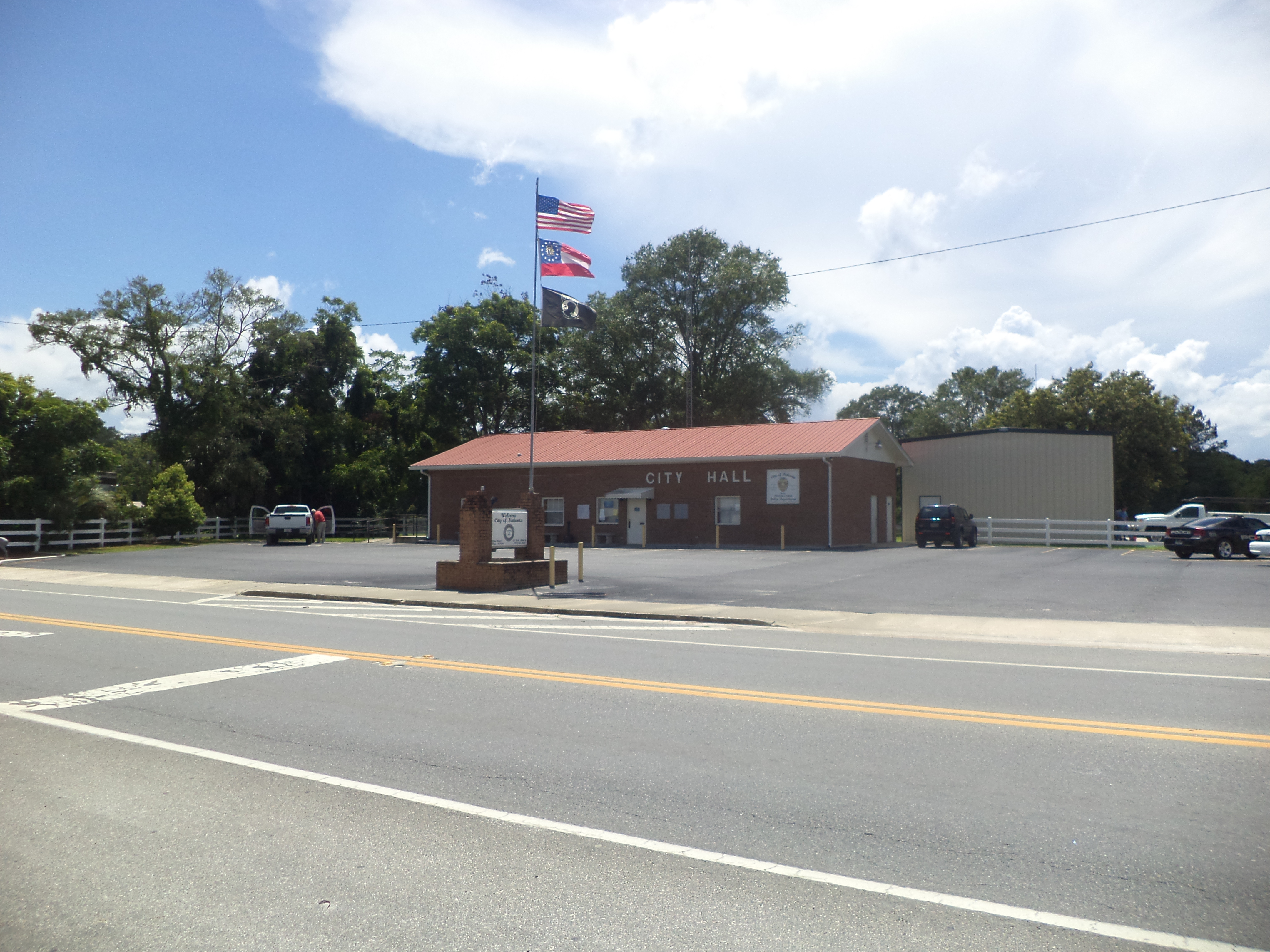 Nahunta City Hall, 9911 Main St N, Nahunta, Brantley County, Georgia